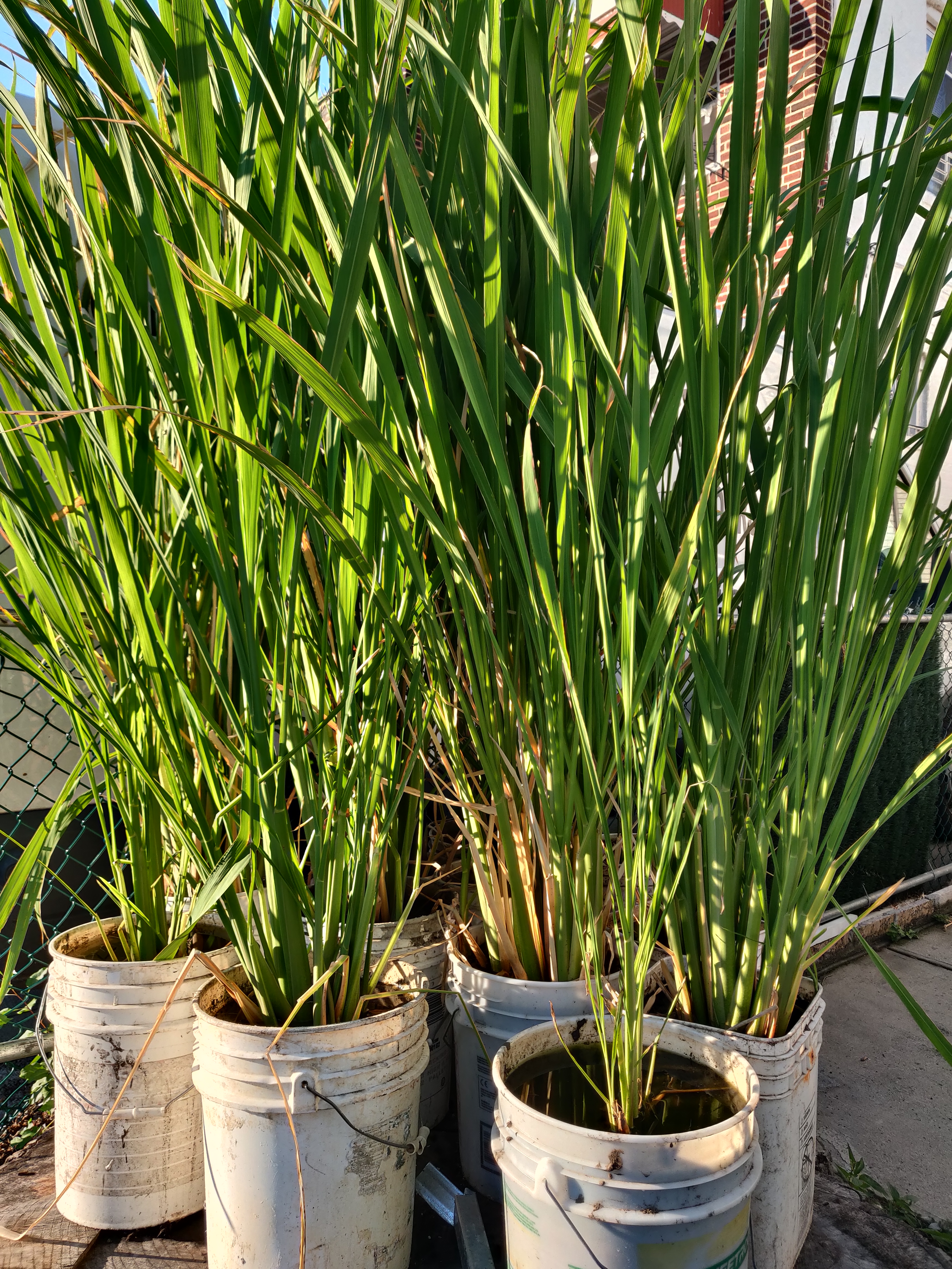 Example of Zizania latifolia in cultivation in large buckets of inundated soil.